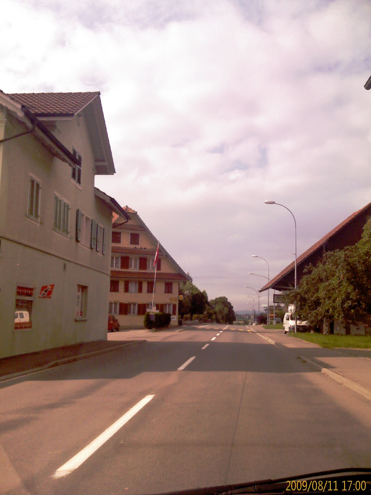 Altwis, canton of Luzern, SwitzerlandEsperanto: Altwis, Kantono Lucerno, Svislando